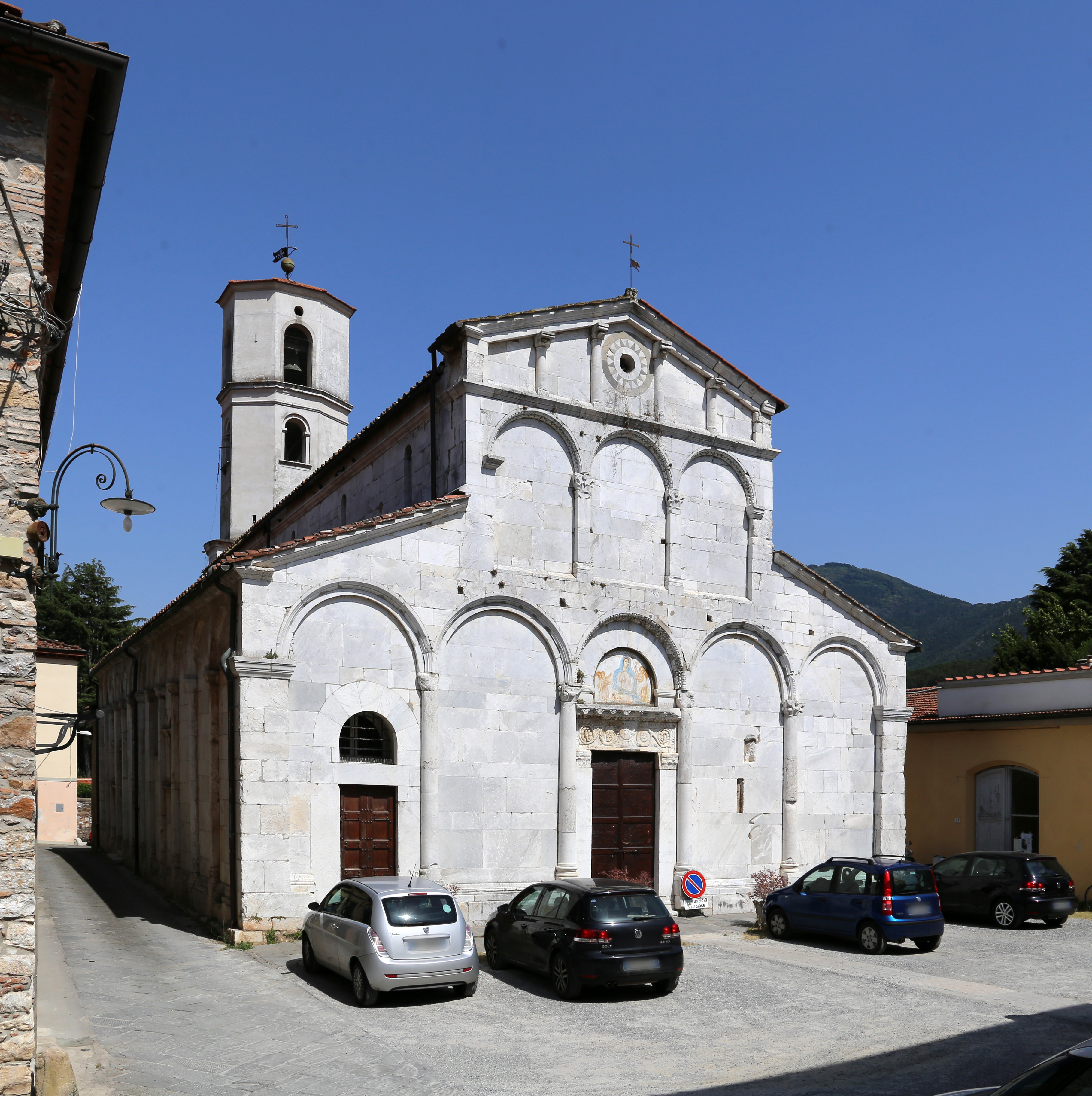 Santa Maria Assunta (Lucca)